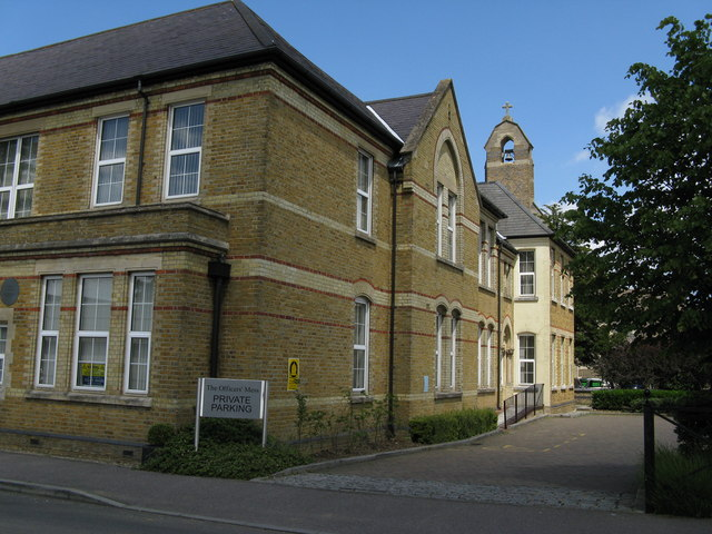 The Officers' Mess Rentable office accommodation on the site of the old Guards barracks.